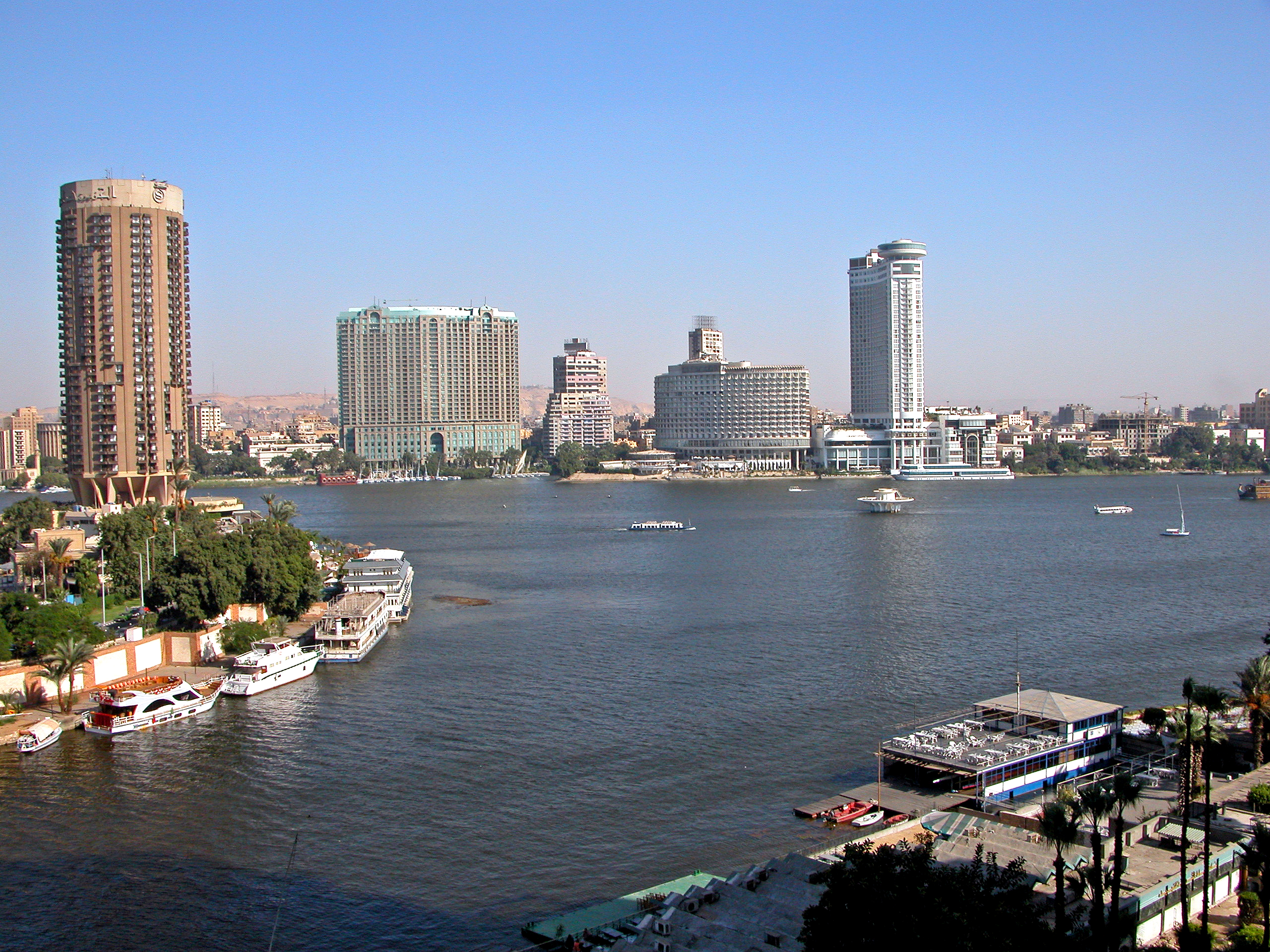 View of the Nile River and Cairo, Egypt